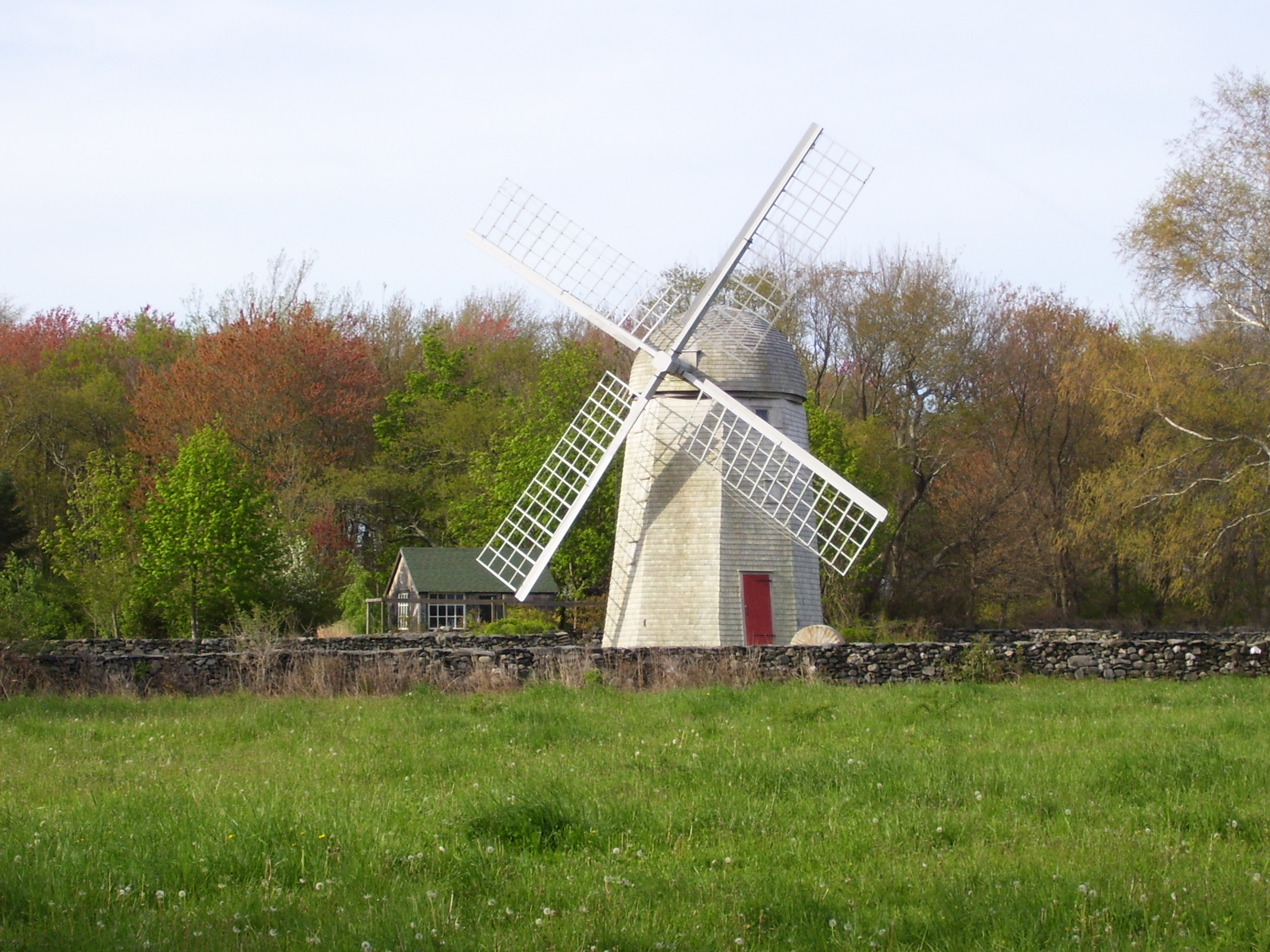 My pic from 2008 of Jamestown Rhode Island windmill